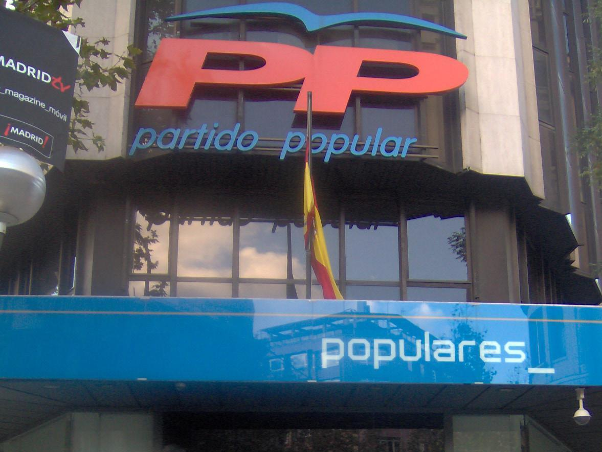 Headquarters of the Spanish People's Party, at 13 Calle de Génova (street) in Madrid.